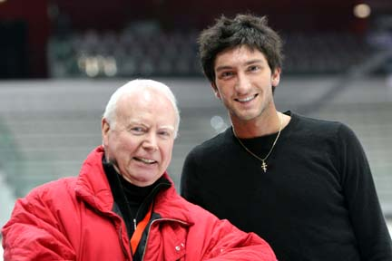 Evan Lysacek and his coach Frank Carroll during practice at the 2007-2008 ISU Grand Prix of Figure Skating Final. Lysacek won the bronze medal at this competition.